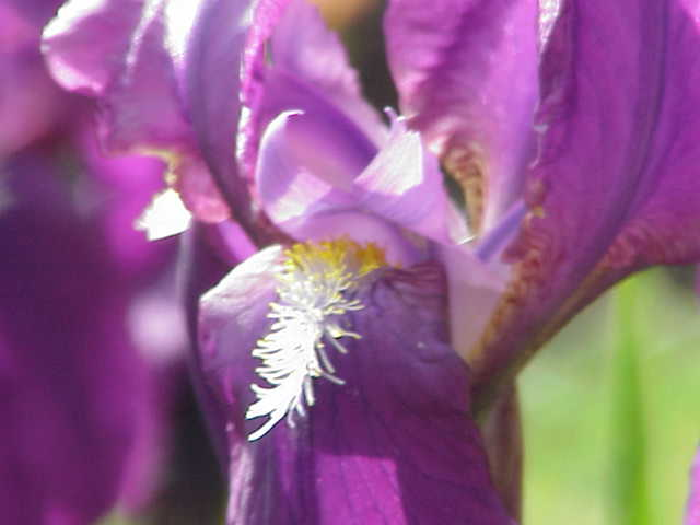 Species: Iris germanica Family: Iridaceae Image No. 9